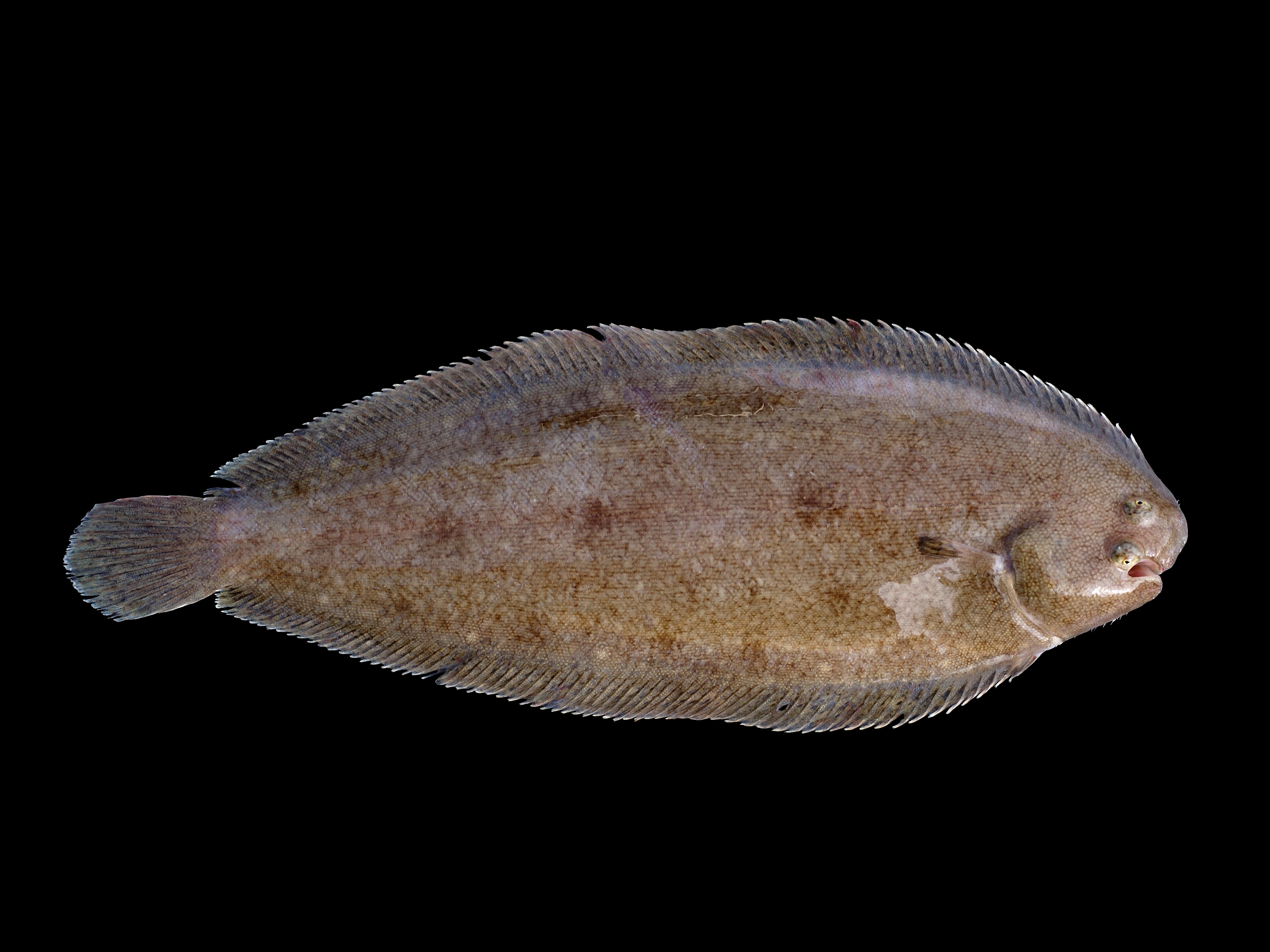 Dover Sole from the Belgian coastal waters.